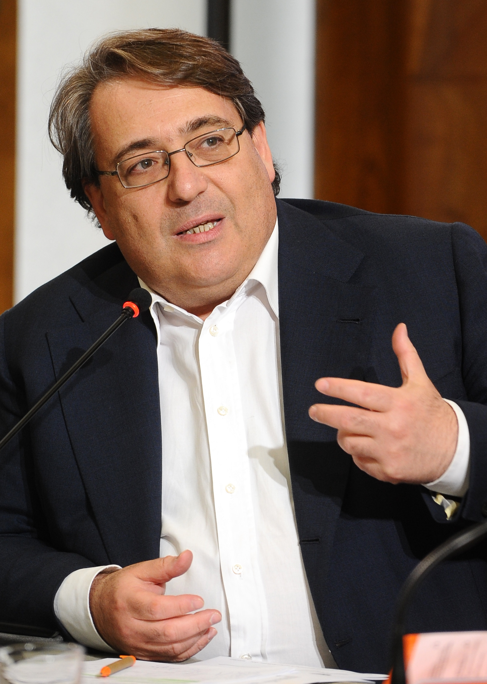 Roberto Napoletano a Trento al Festival dell'Economia.